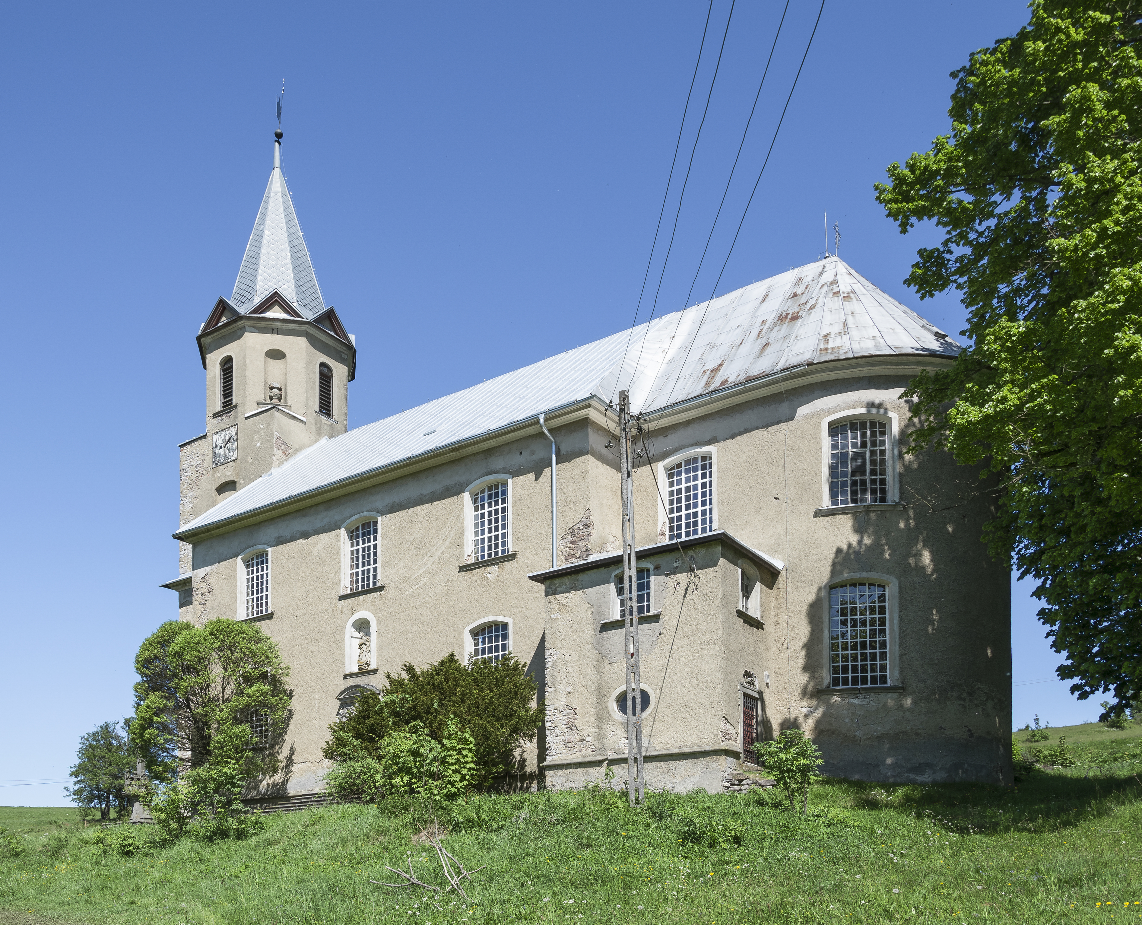 Church of St. Martin in Lesica